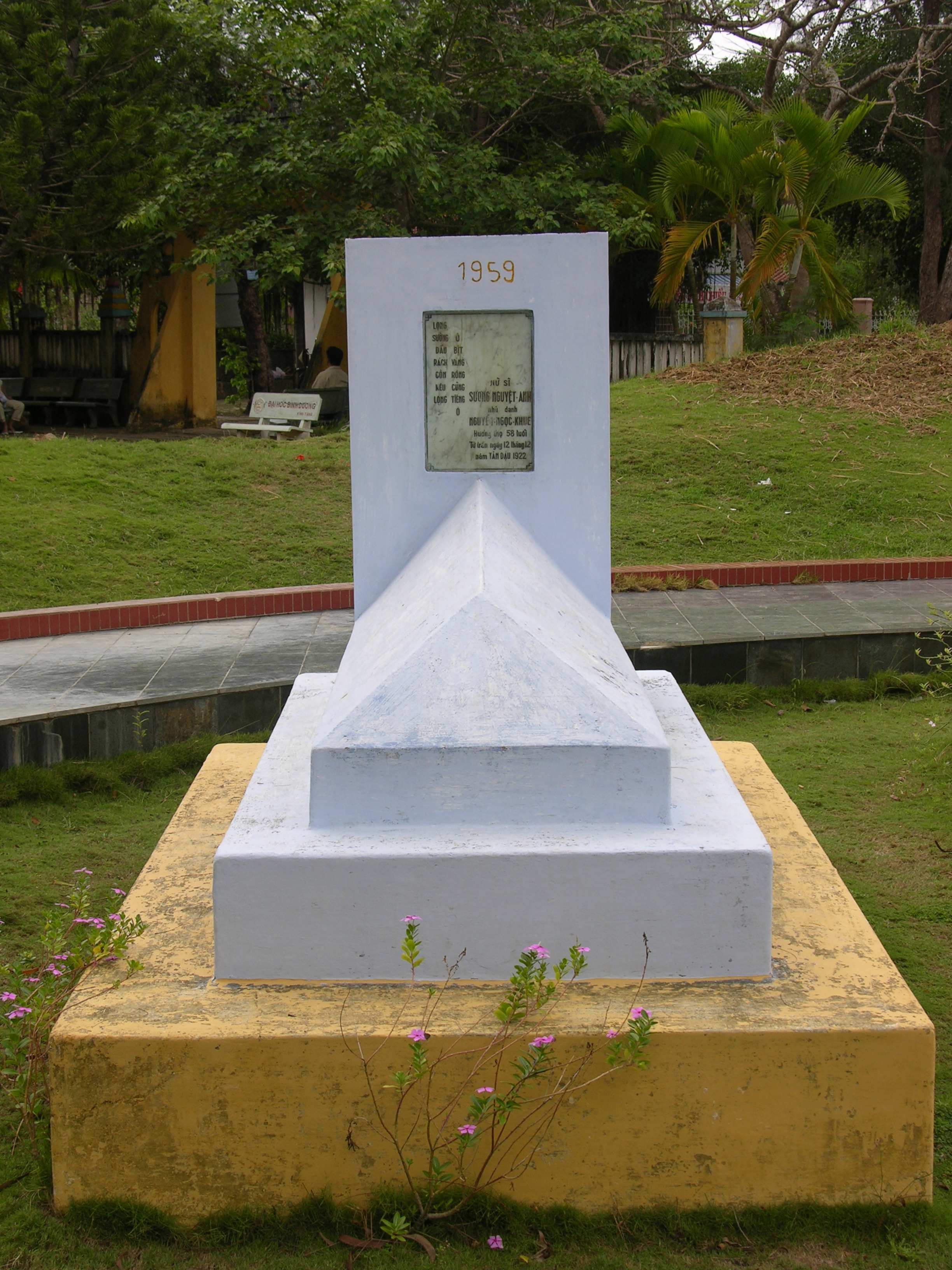 Sương Nguyệt Anh's tomb at Nguyen Dinh Chieu's Temple, Ba Tri, Ben Tre, Vietnam.